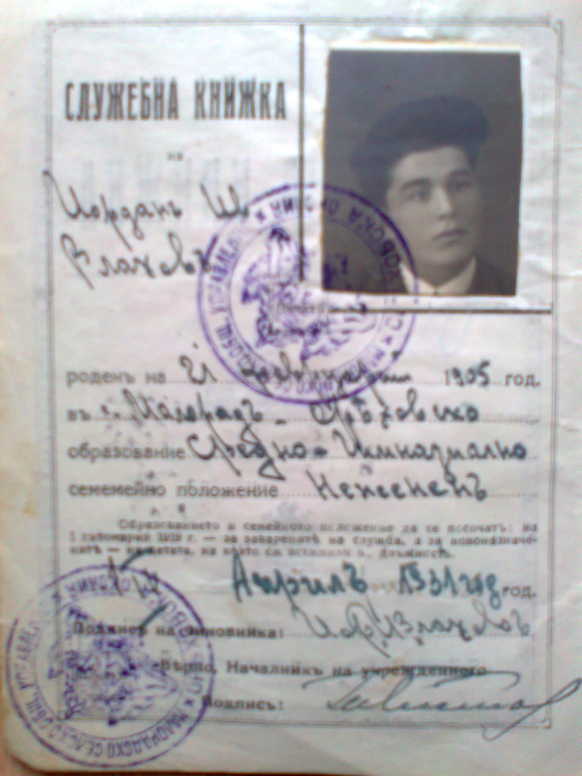 service note